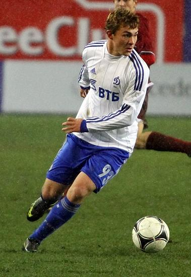 Andrei Panyukov with FC Dynamo Moscow.